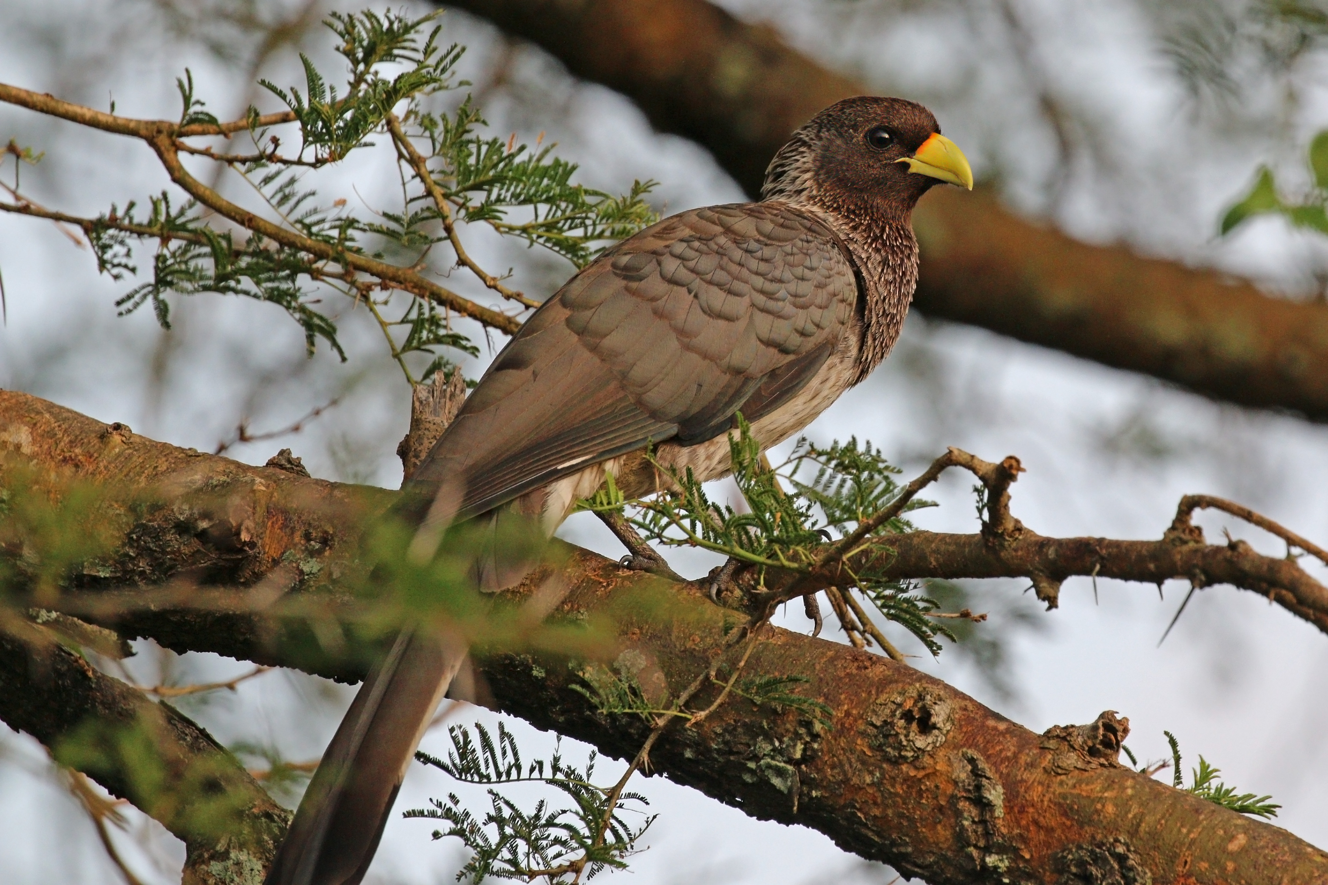 Eastern grey plantain-eater (Crinifer zonurus) female, Semliki Wildlife Reserve, Uganda